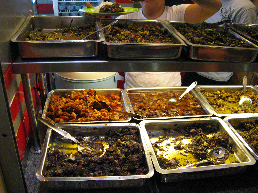 Manado (North Sulawesi) style restaurant in the Ambassador Mall, Jakarta, Indonesia.